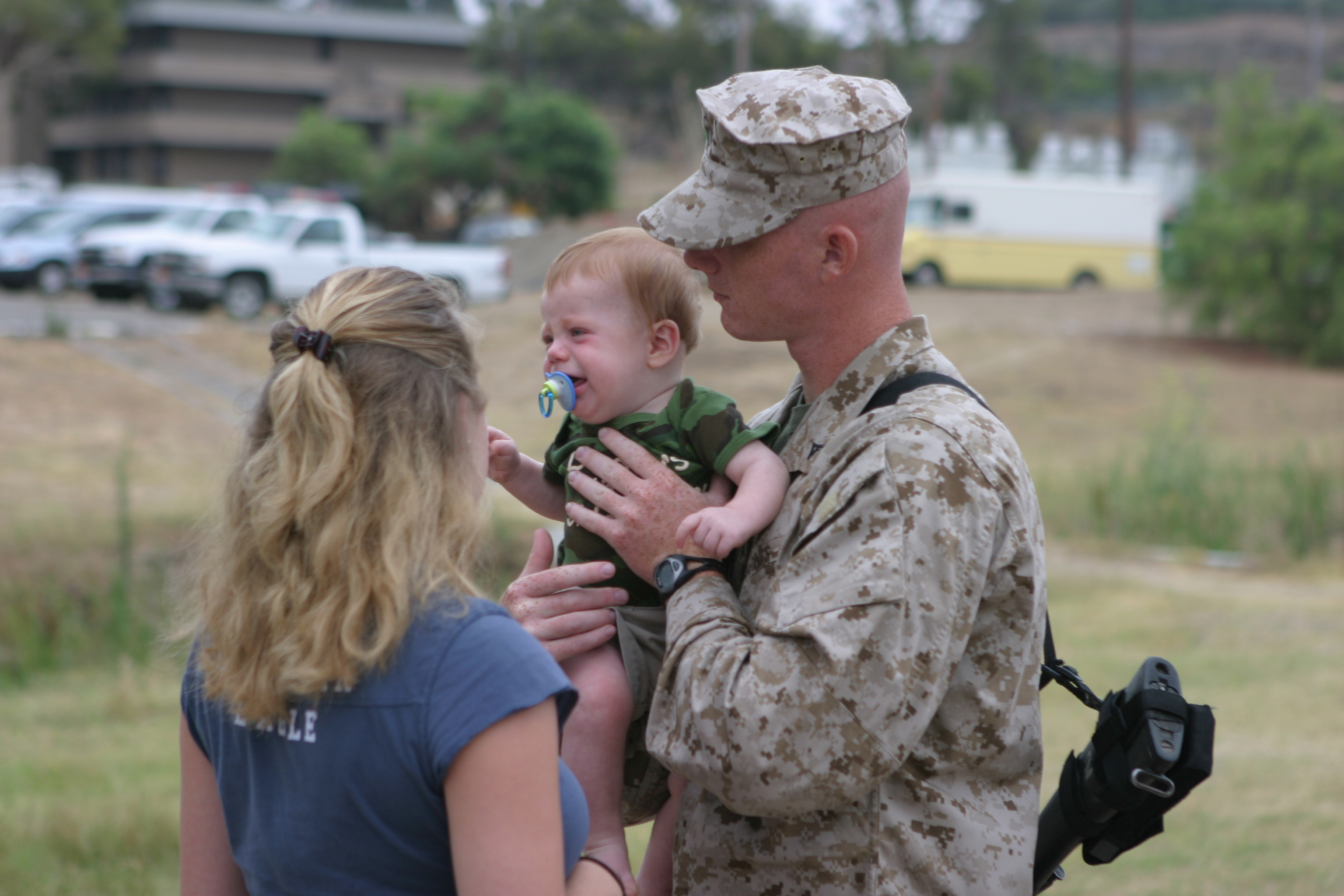 A U.S. Marine of First Marine Logistics Group spends time with his family prior to embarking on a mission to Iraq from Camp Pendleton, Calif., July 30, 2006.